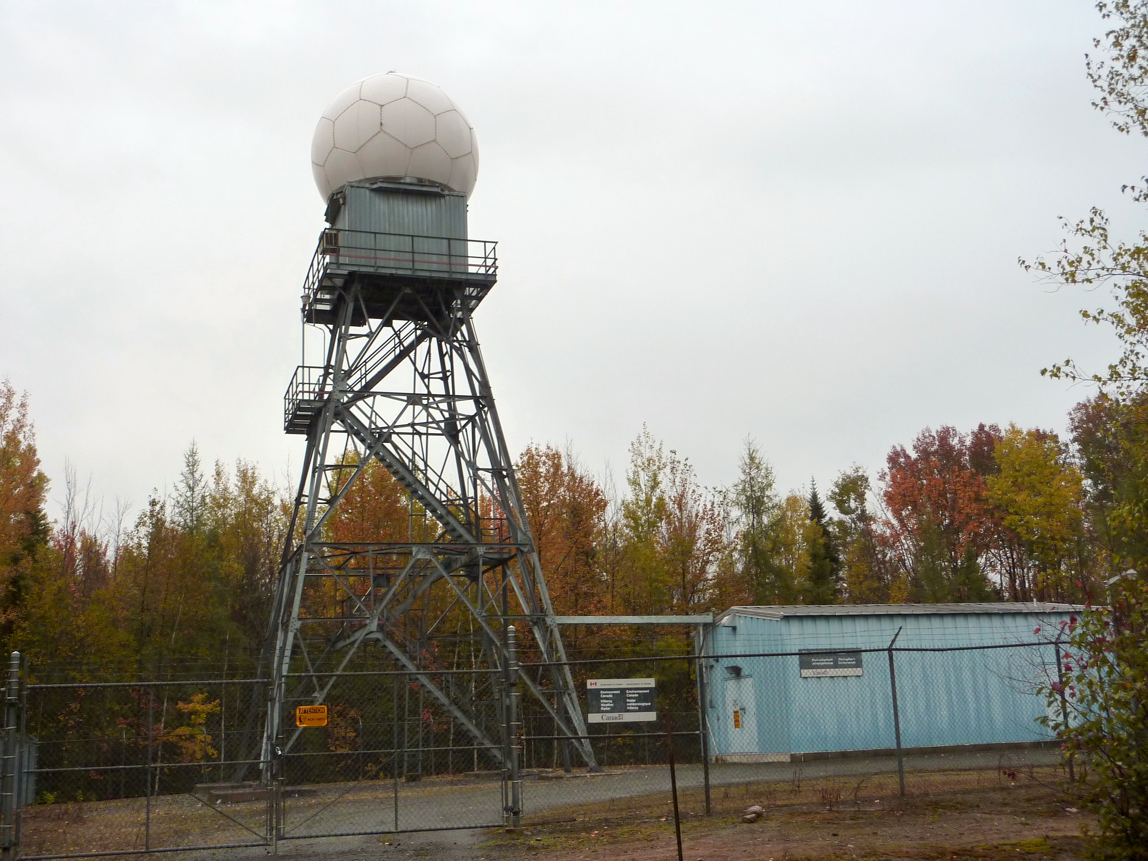 Villeroy radar, part of the Canadian weather radar network of Environment Canada. This is a fully dopplerized 5 cm radar.